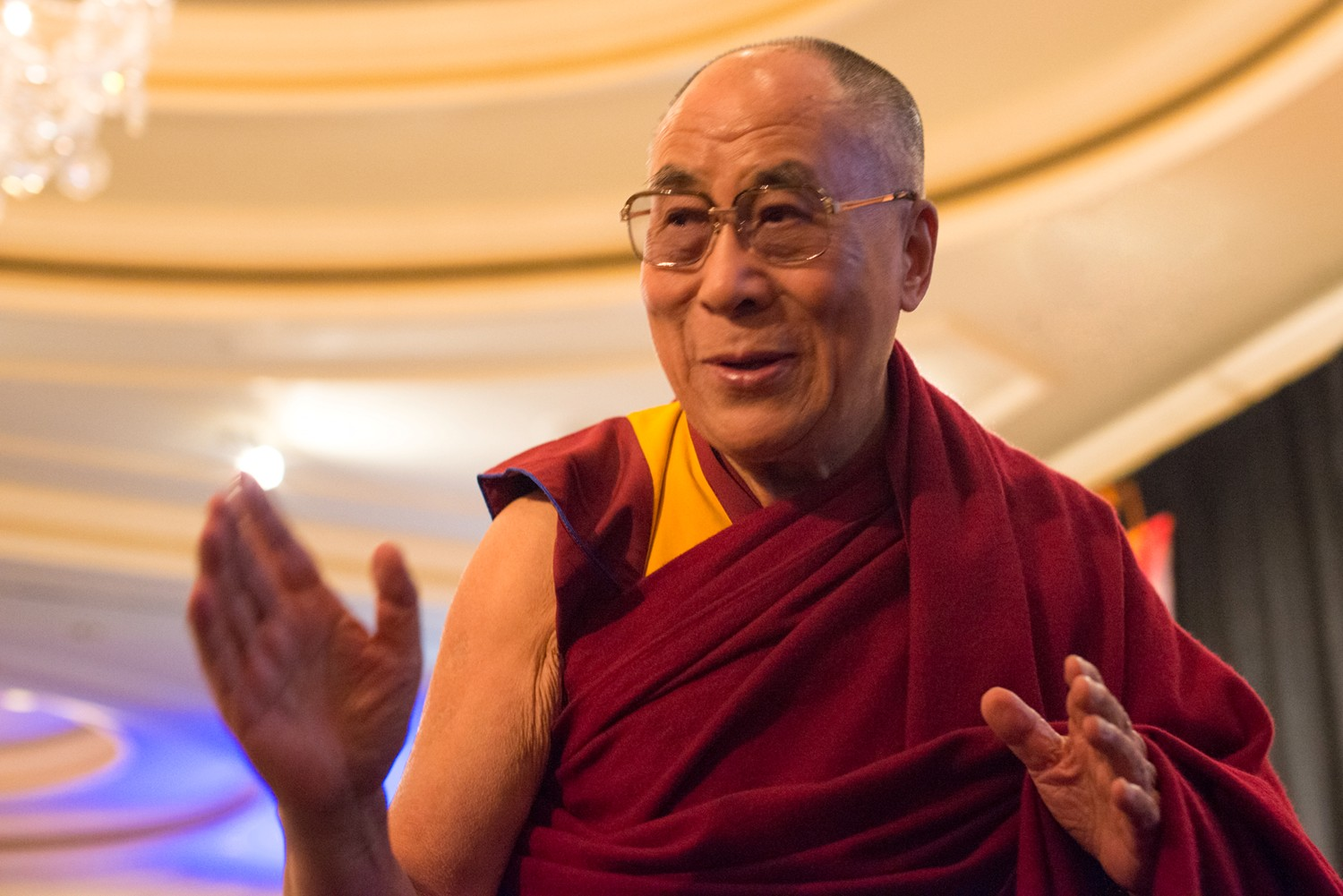 His Holiness the Dalai Lama